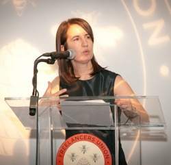 Sara Horowitz speaking at the Freelancers Union 2010 Annual Benefit